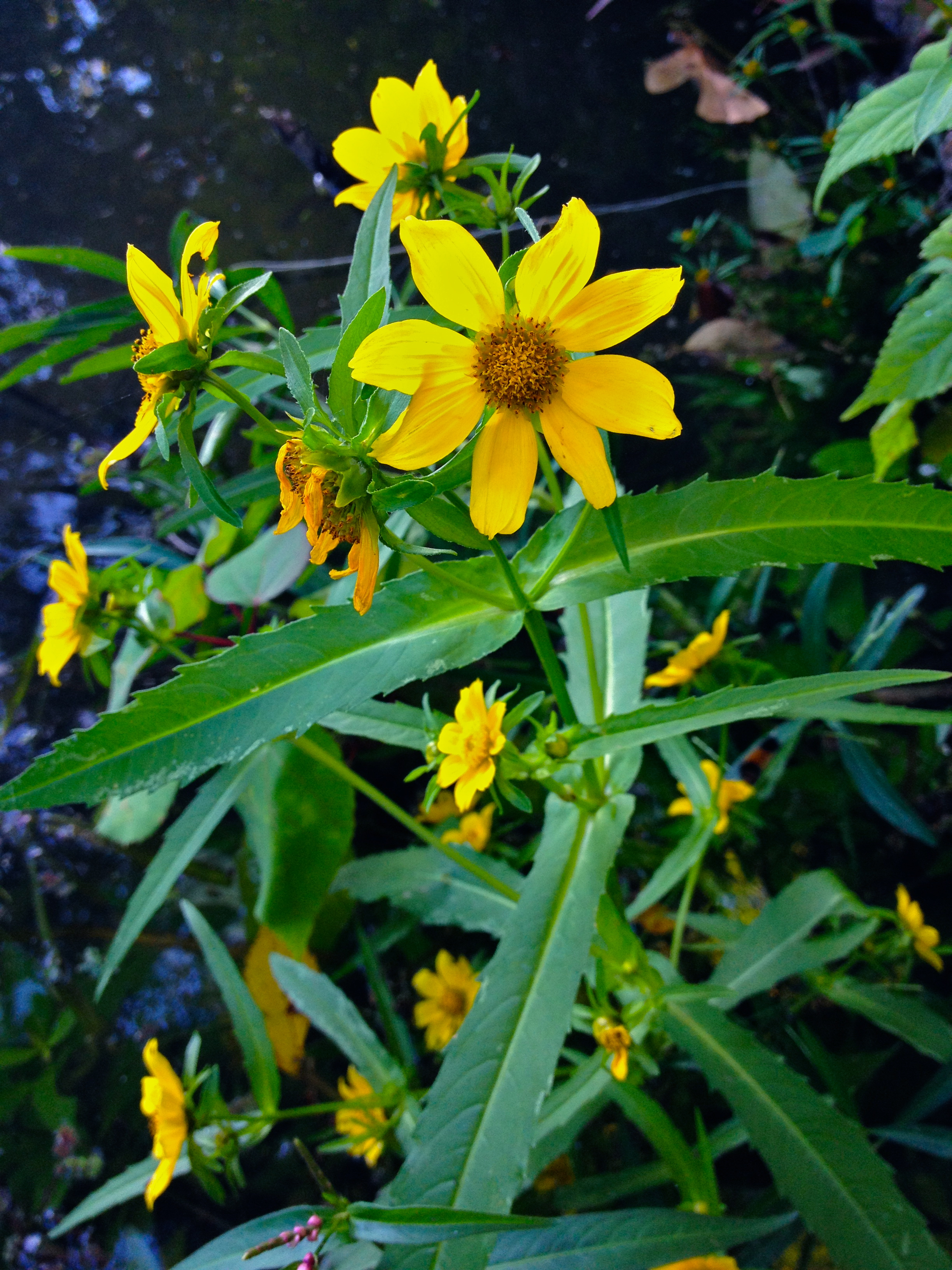 Photo of Bidens laevis in flower. This is a native plant growing wild in River Bend Park, Fairfax county Virginia, USA. This species is a member of the Asteraceae family.